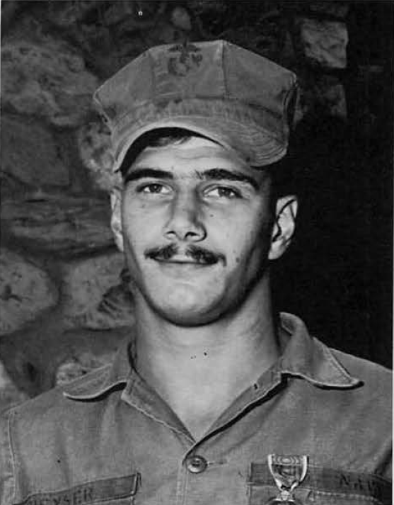 SN Heyser : NMCB 133s first Purple Heart of 1968 deployment